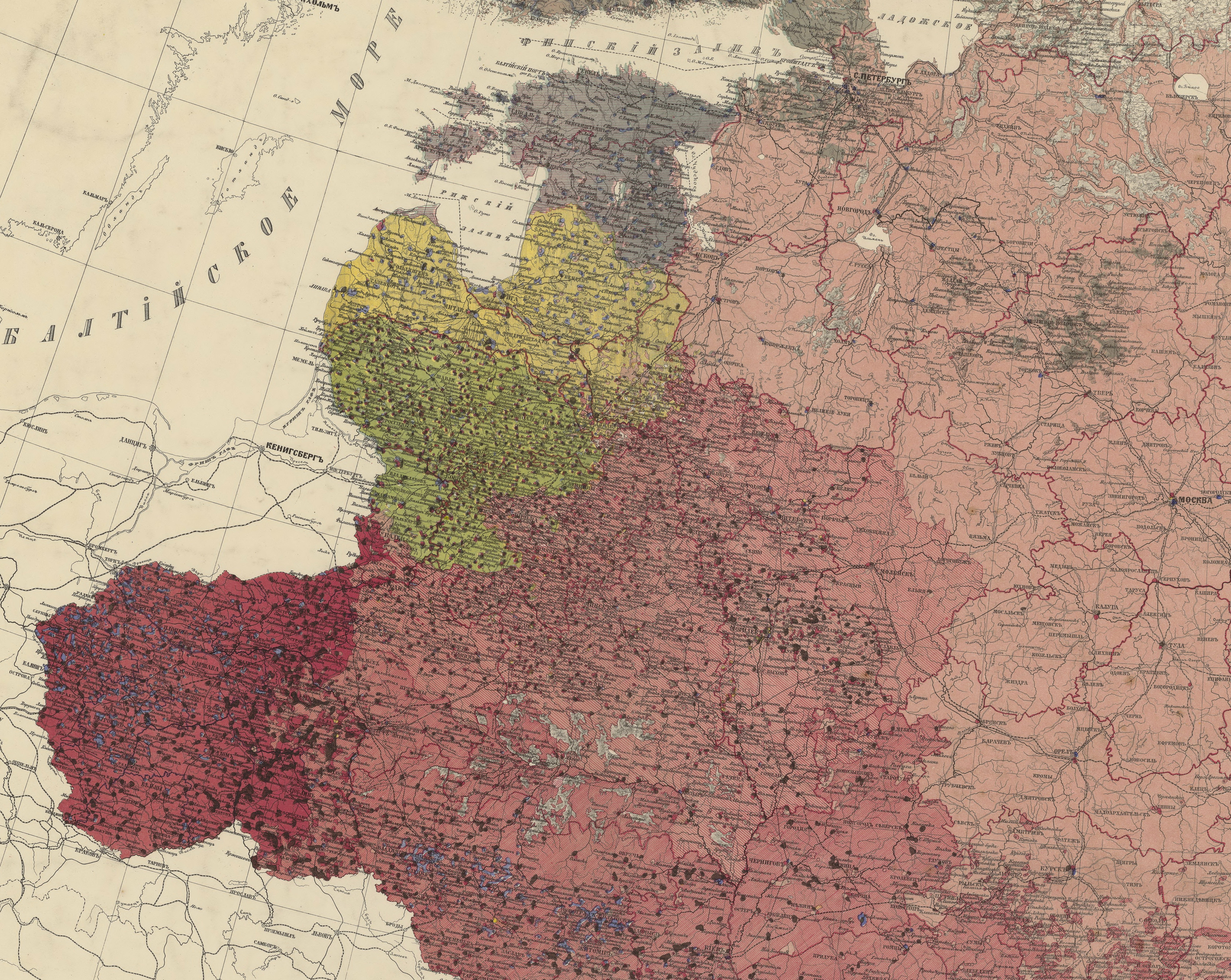 a part of "Ethnographic Map of European Russia" (St. Petersburg, 1875) by Aleksandr Fyodorovich Rittikh